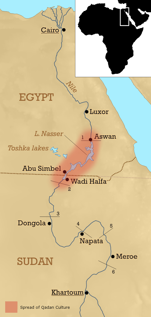 Upper Egypt- shows the spread of Qadan Culture along the Nile River (about 15,000 years ago)